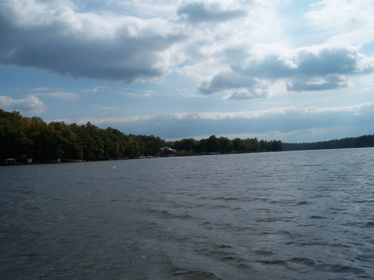 The main channel of Abbotts Creek at the north end. Part of High Rock Lake near Lexington, North Carolina